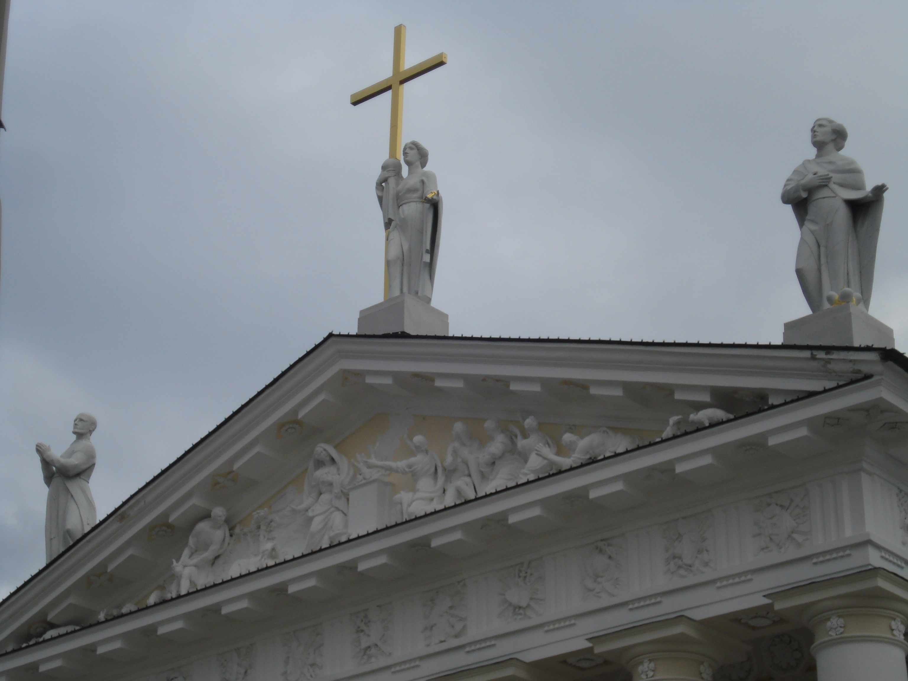 St. Stanislaus, St. Helena, St. Casimir on roof of the Cathedral by Kazimierz Jelski (removed in 1950, restored in 1997 by sculptor Stanislovas Kuzma)